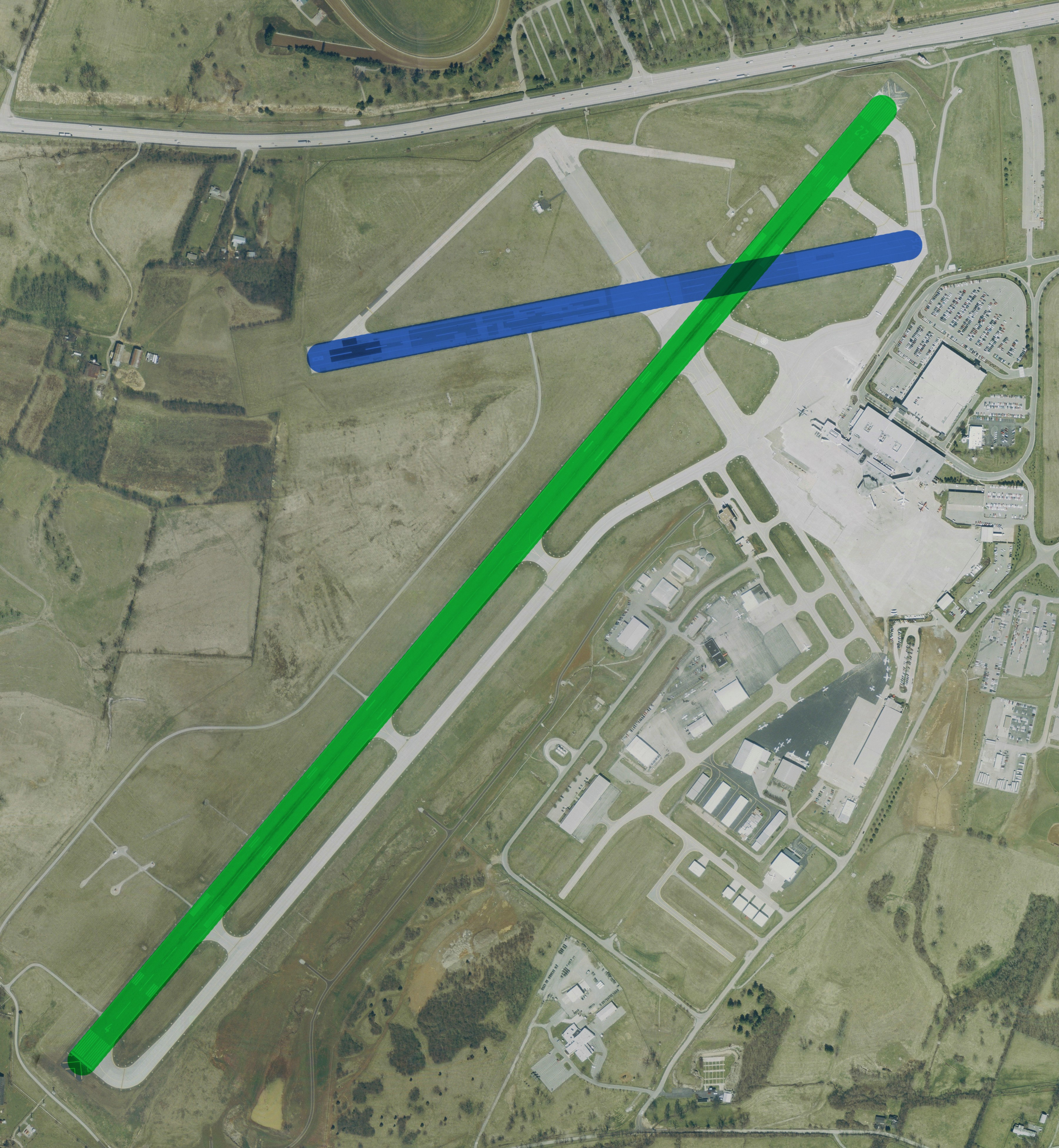 USGS urban ortho of Blue Grass Airport, Kentucky, USA. Overlayed with runway information. Runway 4/22 Runway 8/26